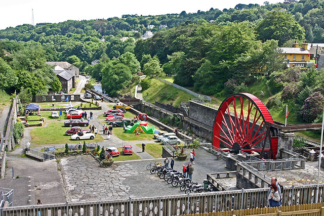 Laxey Valley Gardens Showing the Snaefell Mine Waterwheel. The Snaefell Mine was situated at the head of the Laxey Valley on the lower slopes of Snaefell Mountain. In 1865 a 50 and a half foot diameter waterwheel was built by L & G Howell of the Hawarden Ironworks in Flintshire to pump water from the mine. When the mine closed in 1908, the waterwheel was rebuilt in Cornwall. In the 1970's the components of the wheel were preserved by the Trevithick Society. The Laxey Mines Research Group, in conjunction with the Laxey and Lonan Heritage Trust, reached agreement in 2003 with the Trevithick Society to return the components to Laxey and re-erect the waterwheel at the Valley Gardens